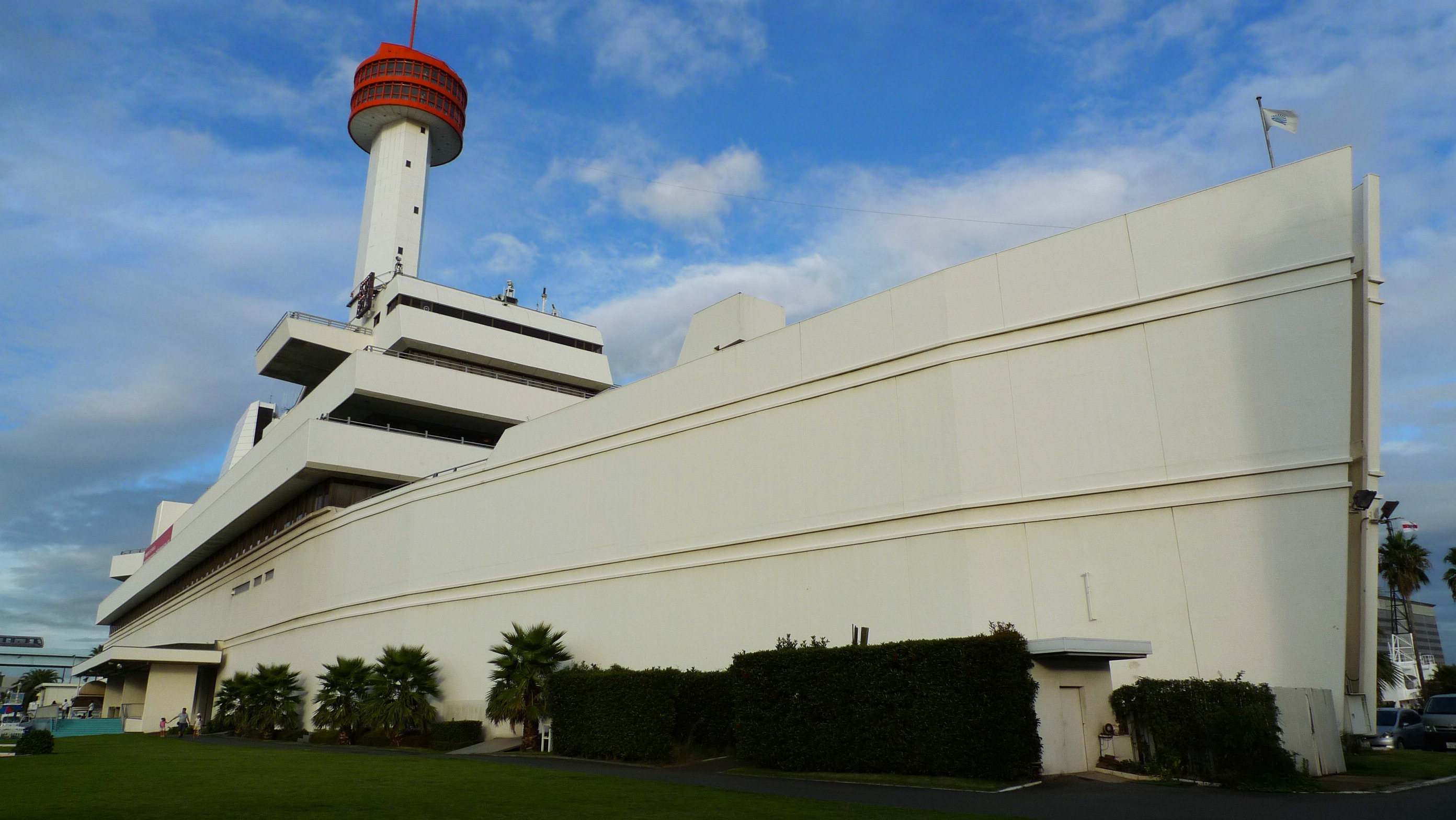 The main building of the Museum of Maritime Science, Tokyo, Japan.